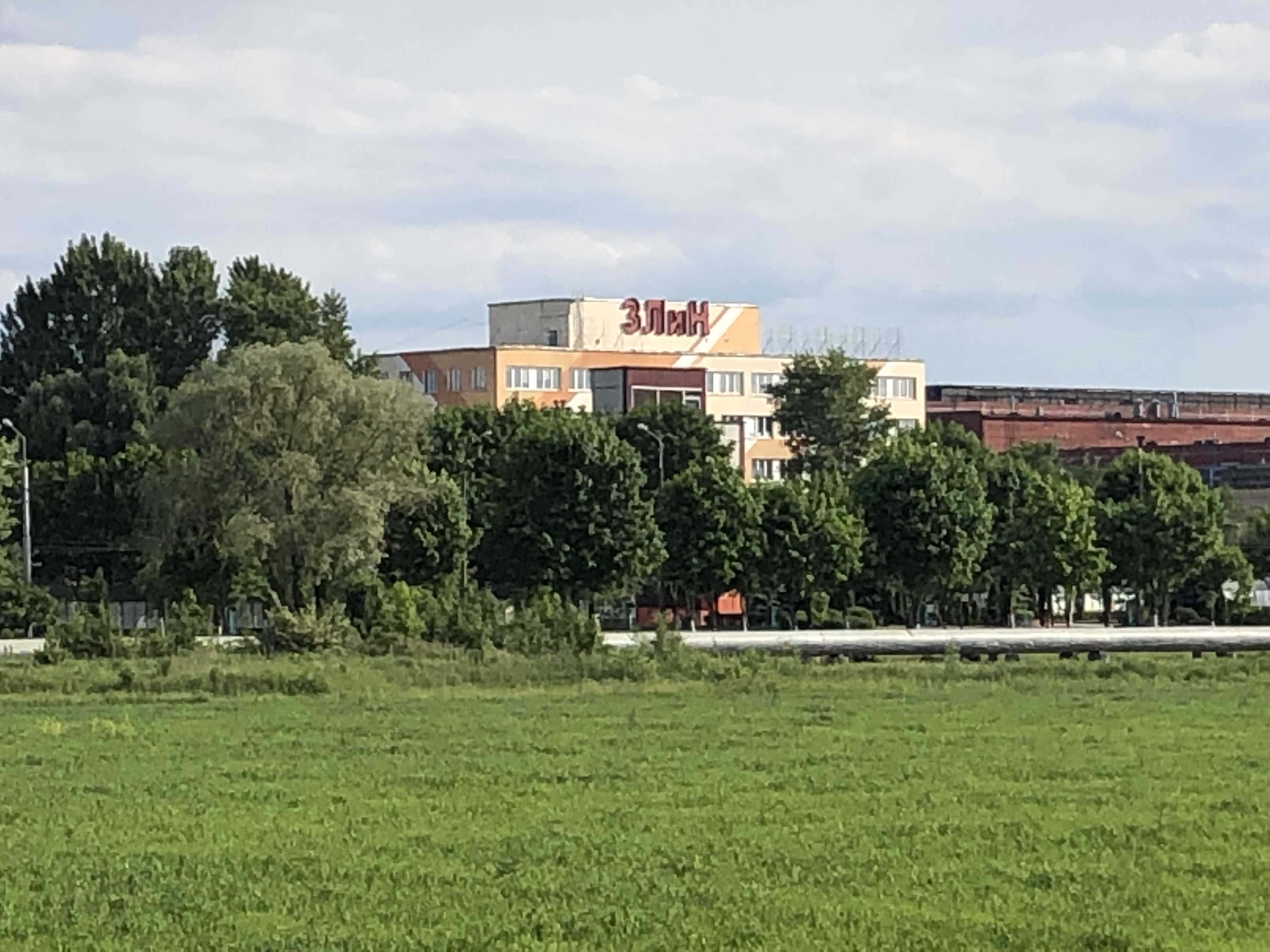 Zlin factory, Gomel